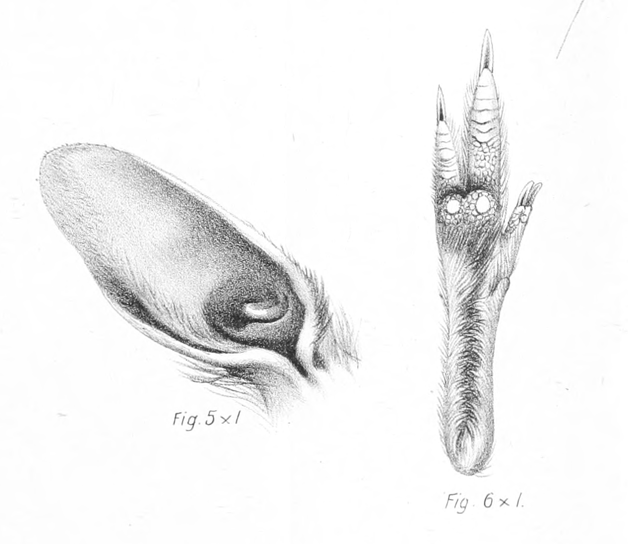 Detail from plate illustrating characteristics of the extinct species Perameles eremiana, an Australian marsupial.